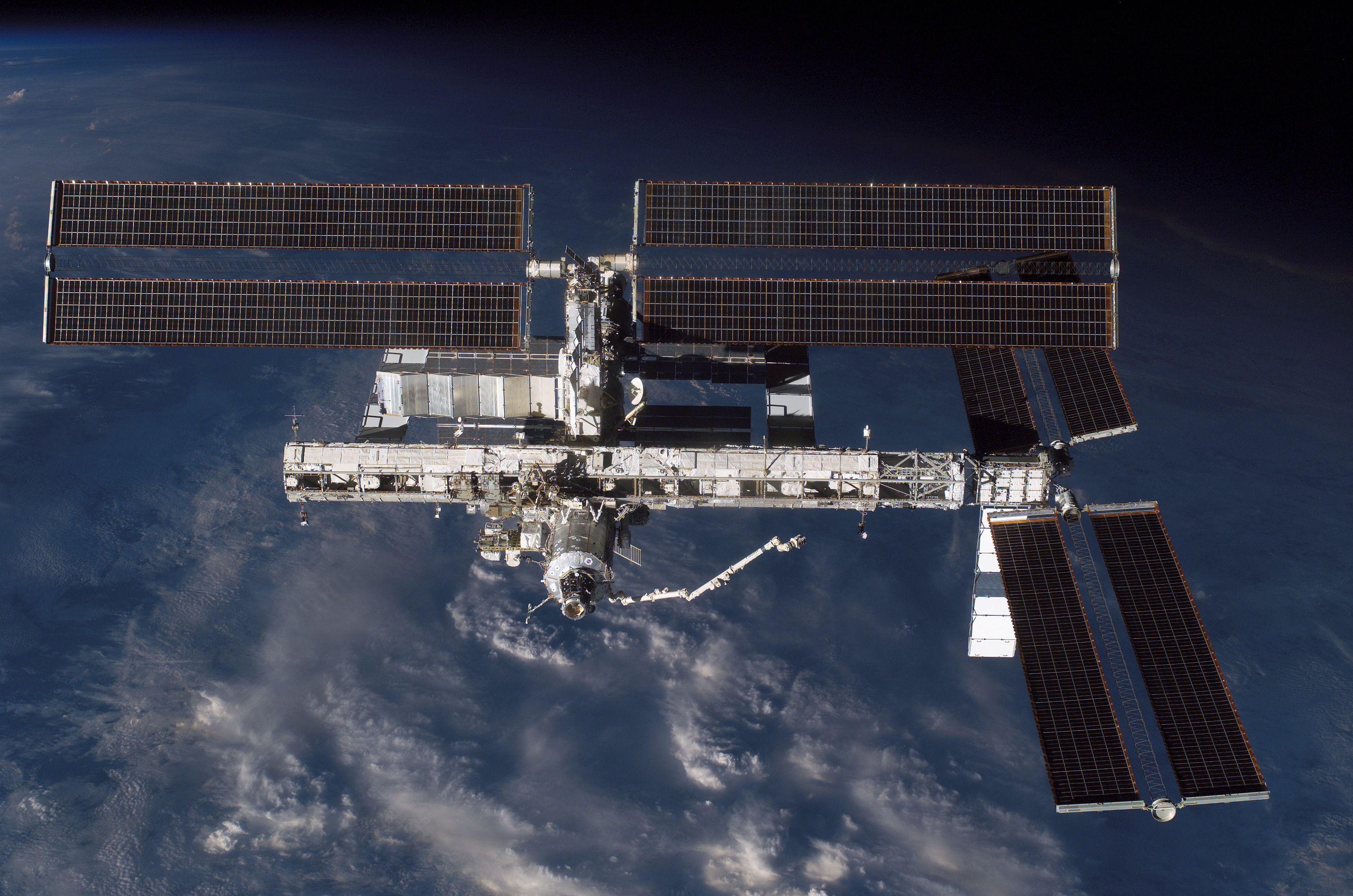 View of the International Space Station, backdropped against a cloud-covered Earth, taken shortly after the Atlantis undocked from the orbital outpost